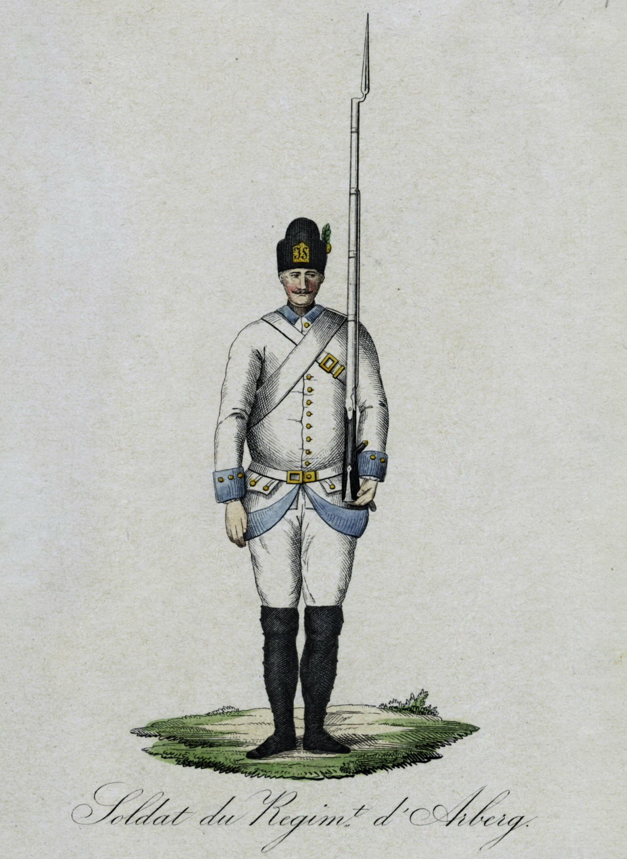 Soldier of the d'Arberg regiment, the 55th Walloon infantry regiment, of the Austrian army in the Southern Netherlands.